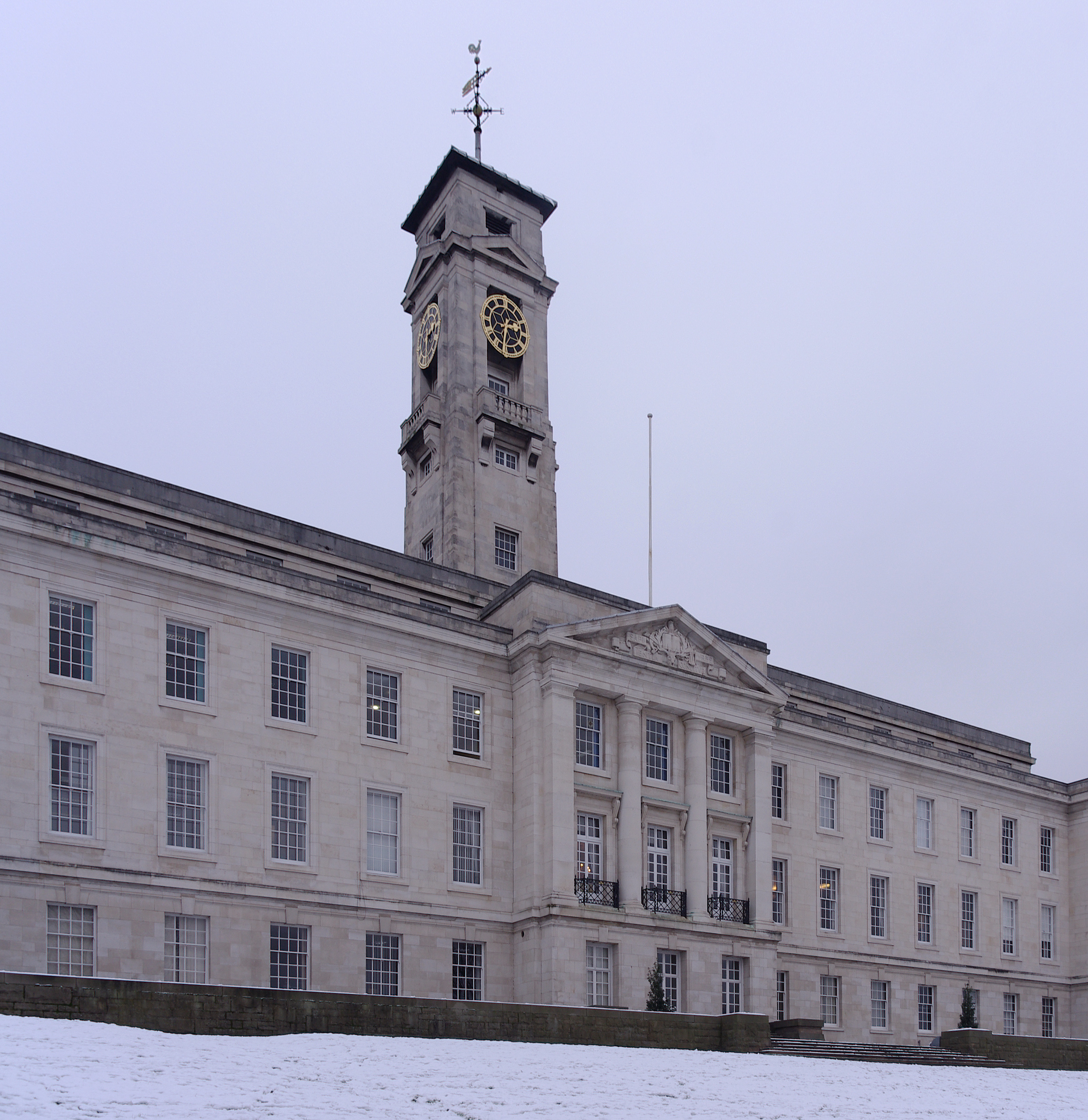 Part of the University of Nottingham's Trent Building in University Park, Nottingham, seen from the south in January 2013 in snow